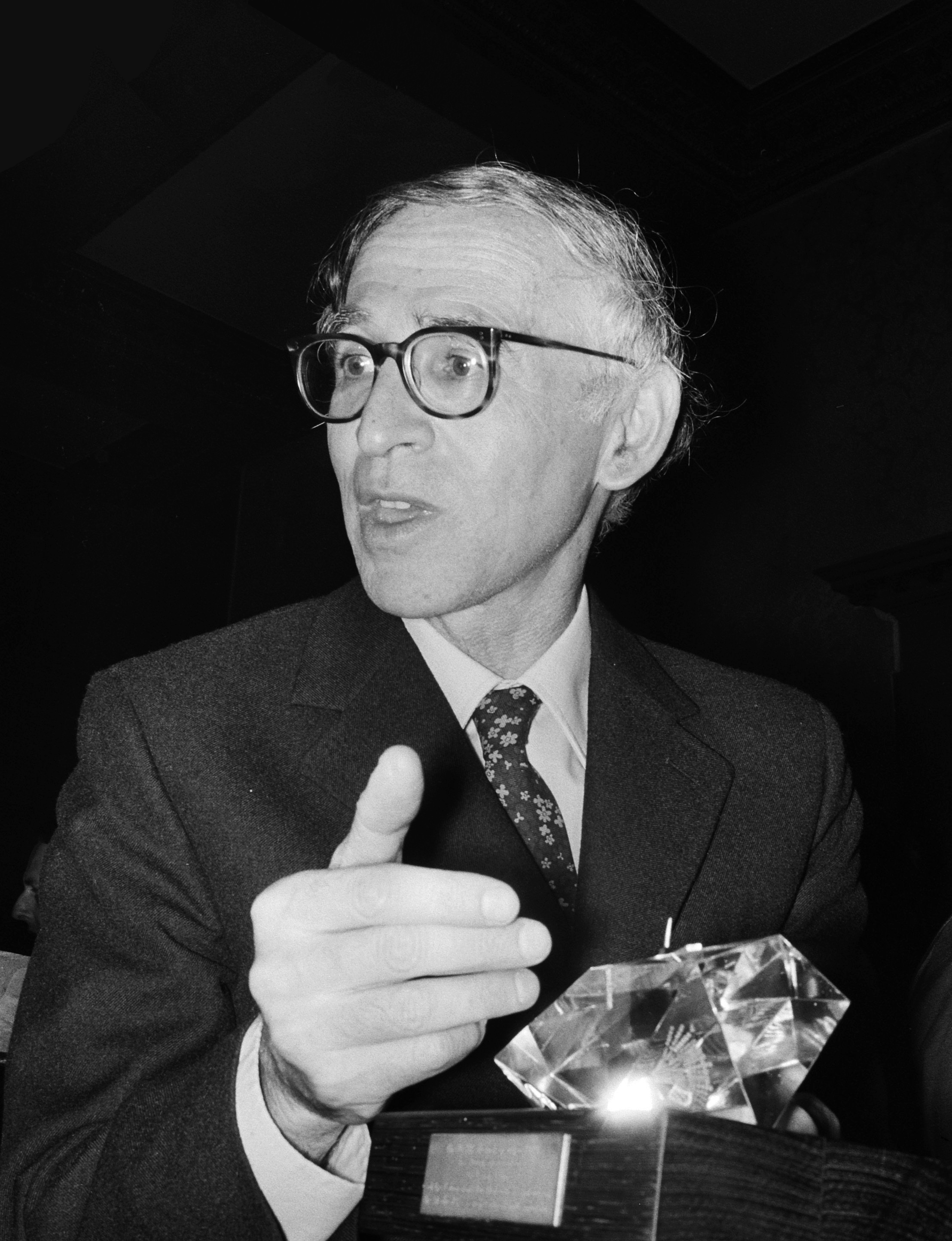 Aaron Klug receives the H.P. Heineken prize from Prince Claus